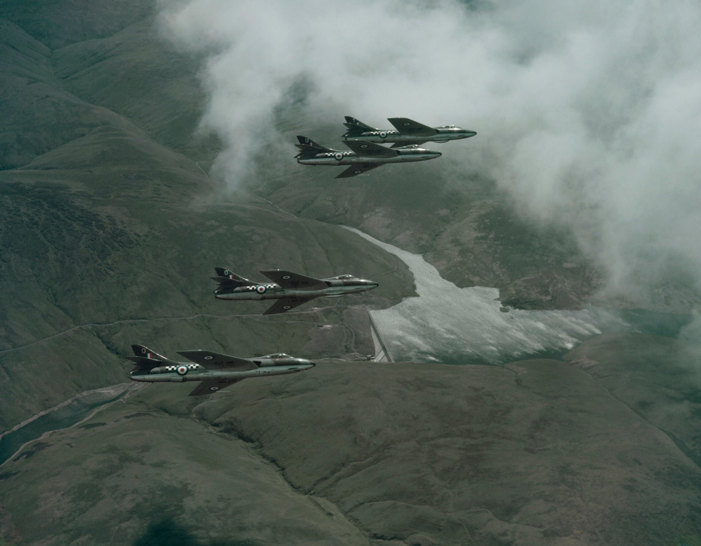 Four Hawker Hunters of 43 Squadron RAF in flight. Probably flying from their base at Leuchars, Scotland. The aircraft depicted in this image are probably serial numbers WV324, WV387, XF299 and WV366. These aircraft are possibly the four man aerobatic team assembled by No 43 Squadron in 1956 to fly the Hawker Hunter F.4 at the SBAC display at Farnborough in September 1956.